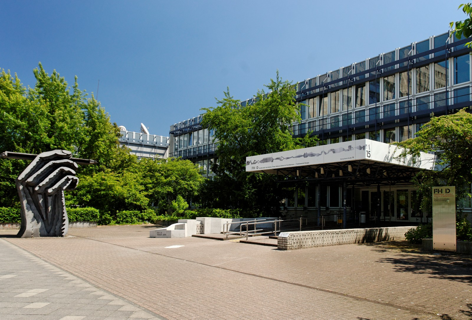 University of Applied Sciences in Düsseldorf-Golzheim, Germany